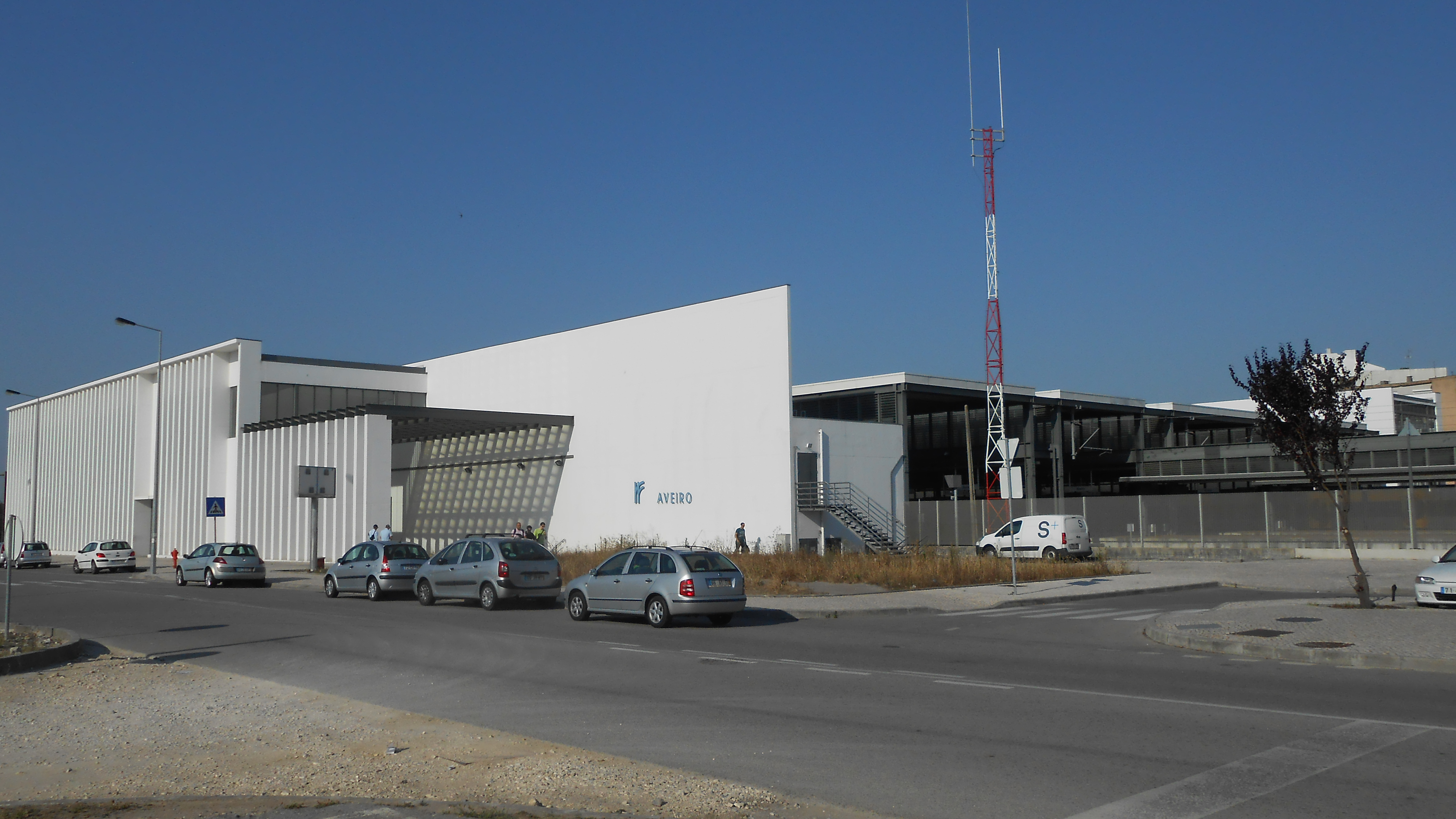 Rear entrance of the Aveiro train station